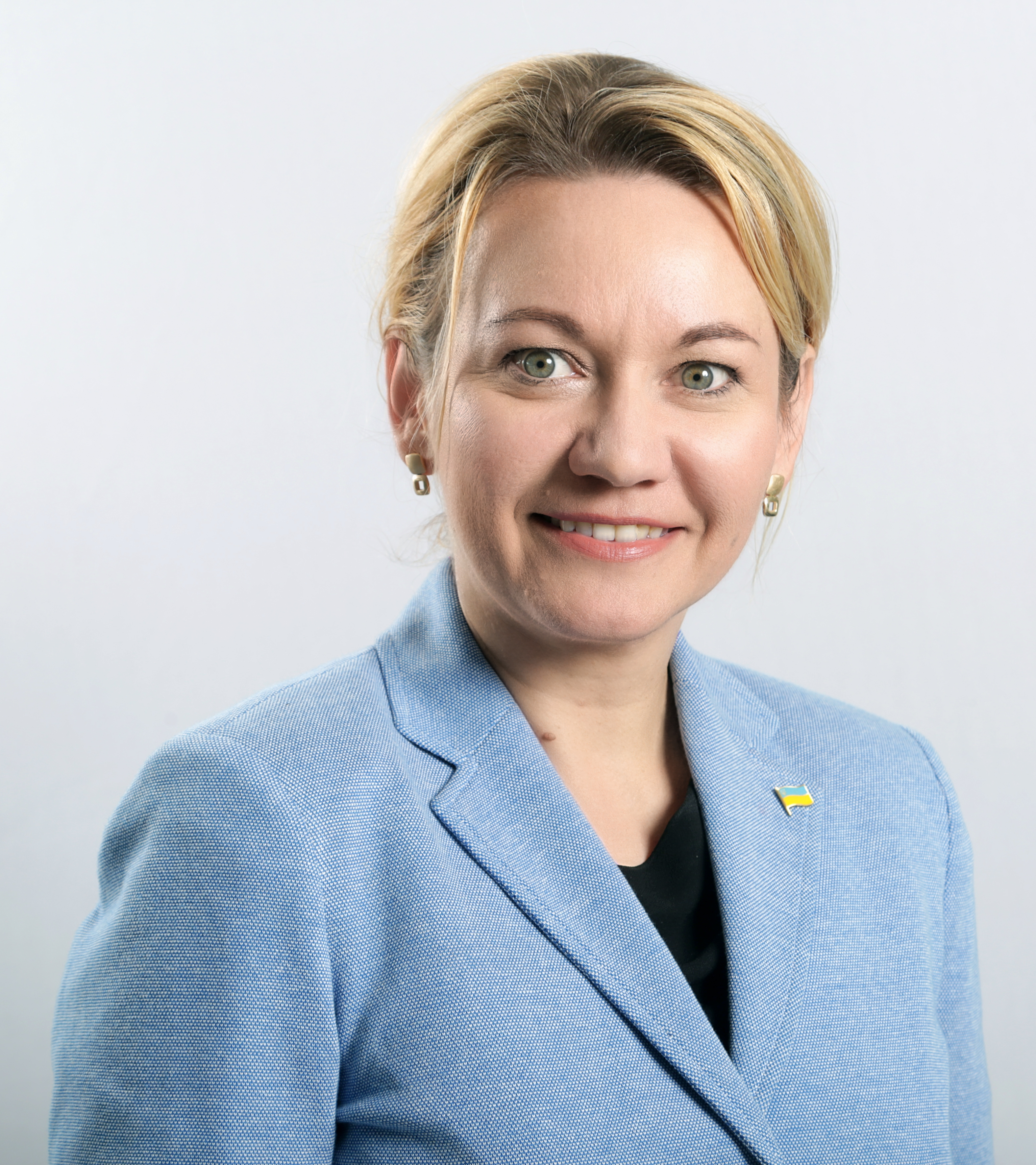 Photo by Hervé Cortinat